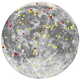 Description: This map displays an approximate distribution of transient lunar phenomena. It is based on a monochrome map by Barbara Middlehurst and Patrick Moore that was published in the book, On the Moon, 2001, Cassel & Co., ISBN 0304354694. Red dots indicate TLP that appeared to the observer as a reddish cloud. Yellow dots are all other events. Size: 281 × 284 pixels. Source:' This is a modified version of a photo obtained from the NASA Planetary Photojournal. It was modified by RJHall.